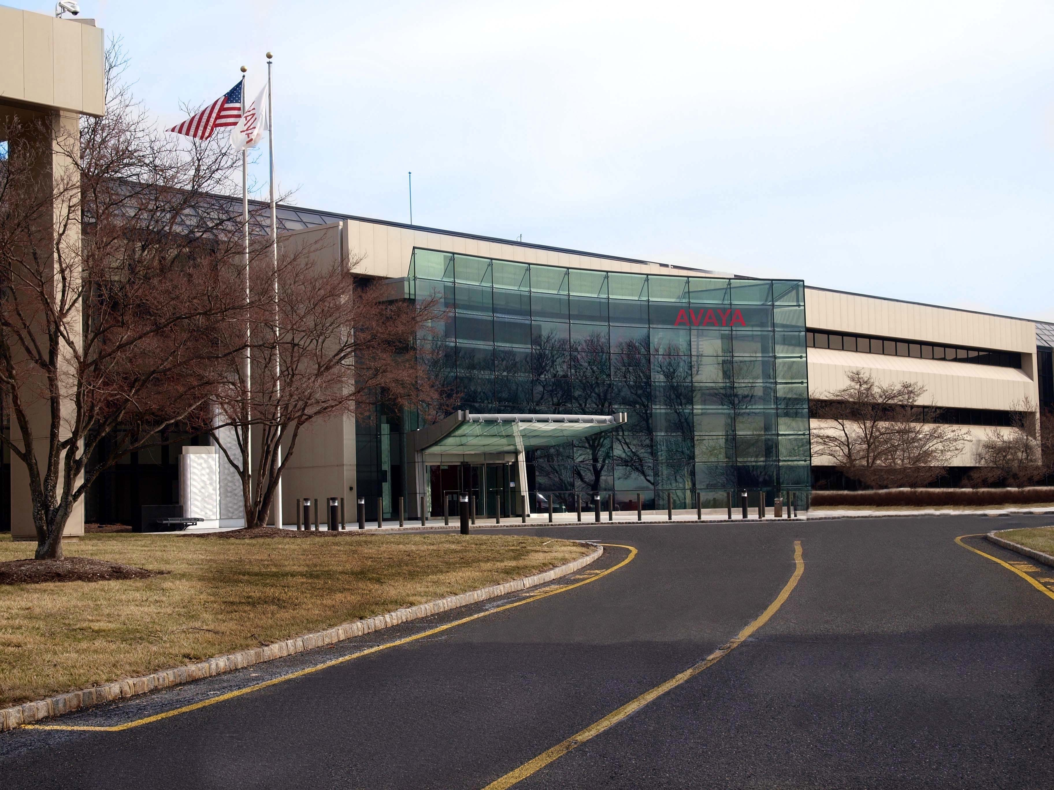 Former Avaya headquarters building in Basking Ridge, New Jersey, United States.